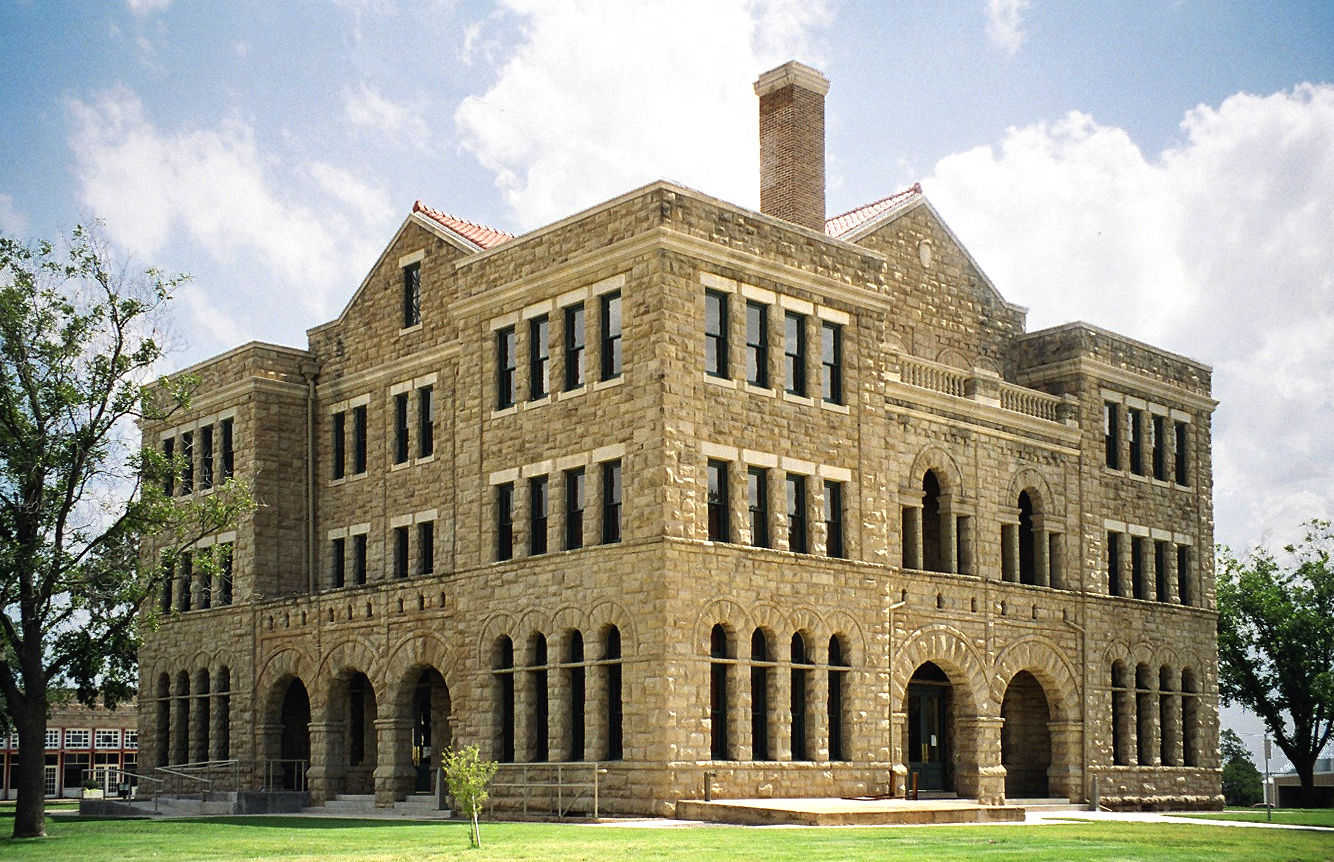 The Archer County, Texas courthouse located in Archer City, Texas, United States was completed in 1892, architect Alonzo N. Dawson (aka A.N. Dawson). The Romanesque Revival style structure was built of brown quarry-faced sandstone obtained from a quarry nearby. The building was designated a Recorded Texas Historic Landmark in 1963 and listed on the National Register of Historic Places on December 23, 1977.